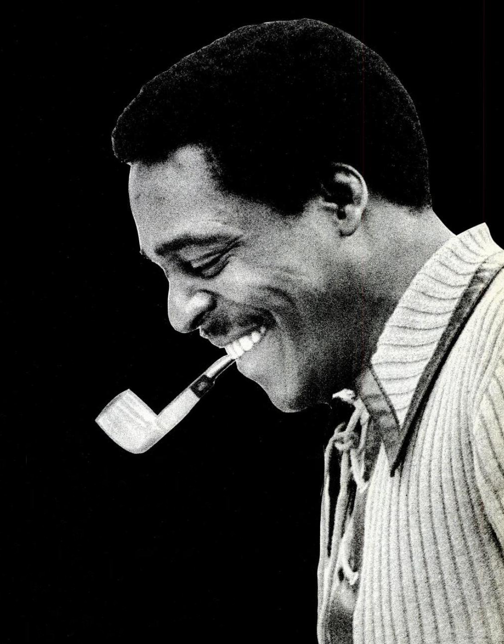 Trade ad for Brook Benton's single "Shoes". To better adapt it to his respective Wikipedia article, the ad was cropped and cleaned in a graphics editing program. The original can be viewed at the source below.